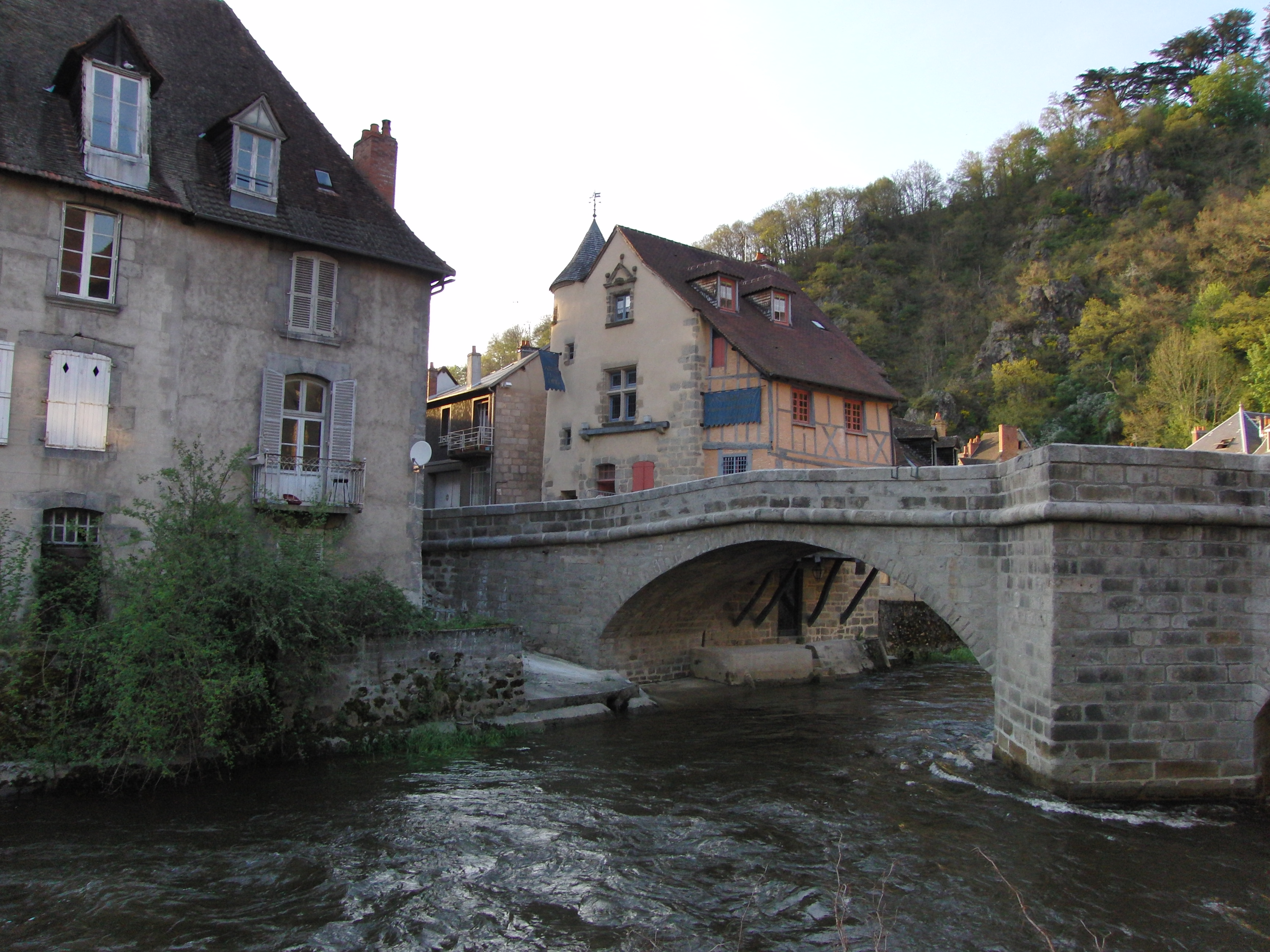 Aubusson Pont de la Terrade